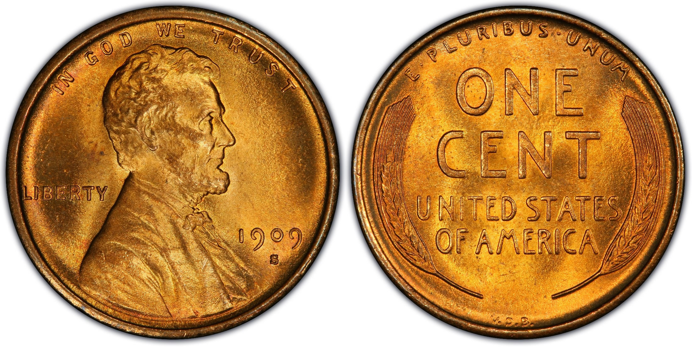 A VDB 1909 US Penny